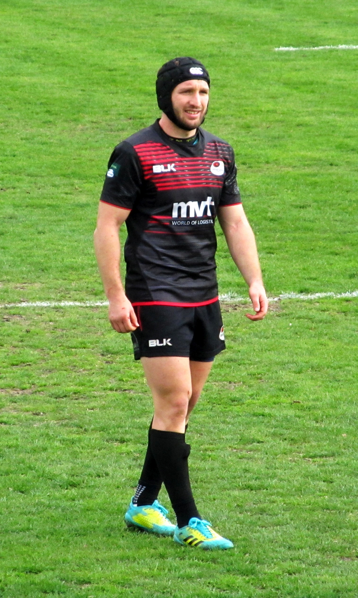 Romanian rugby union football player Vlăduț Popa during the 2019 Cupa României Final match between his team, Timișoara Saracens, and rivals CSM București in March 2019